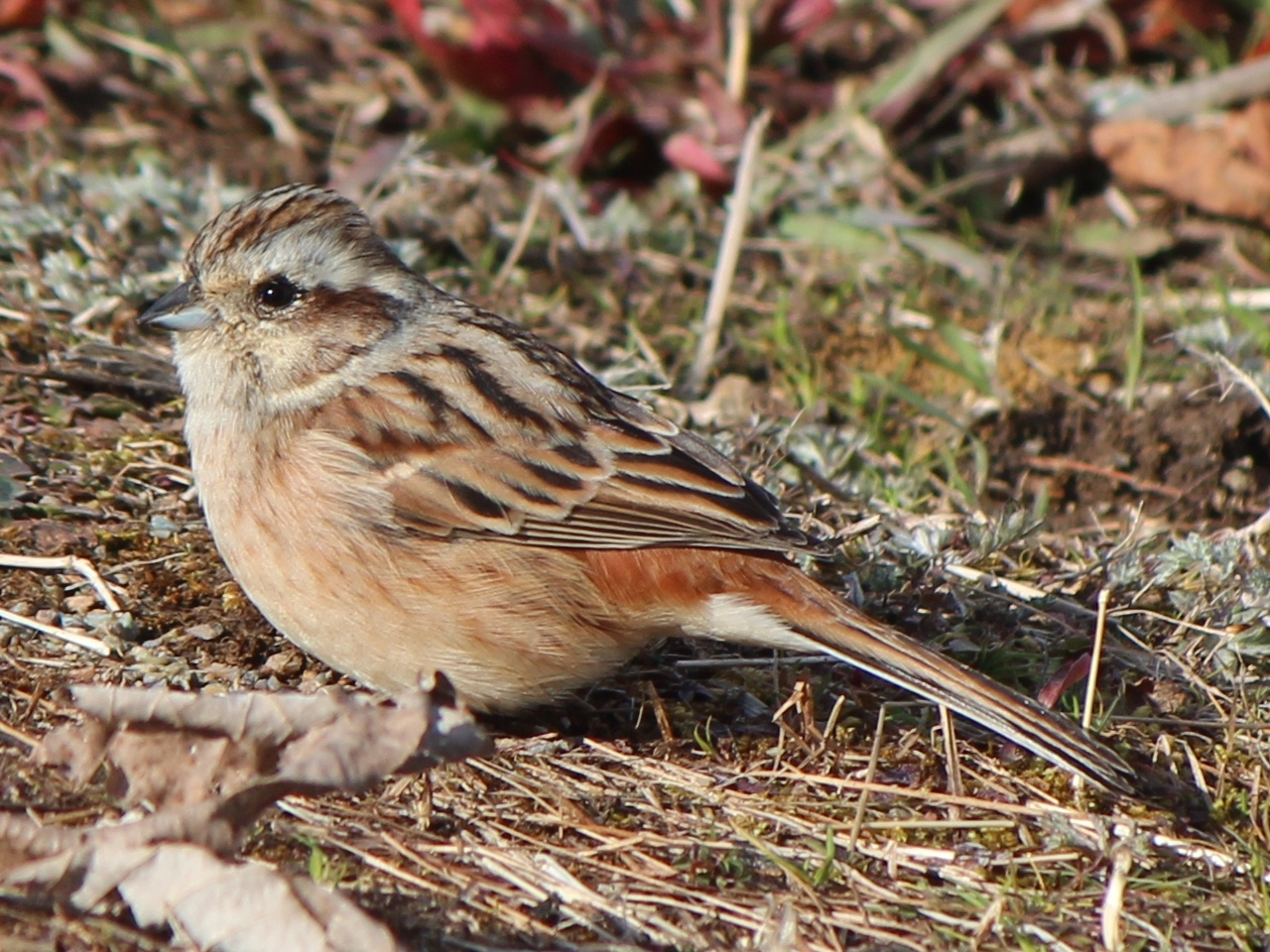 Emberiza cioides (Meadow Bunting), female eating seed in Japan.